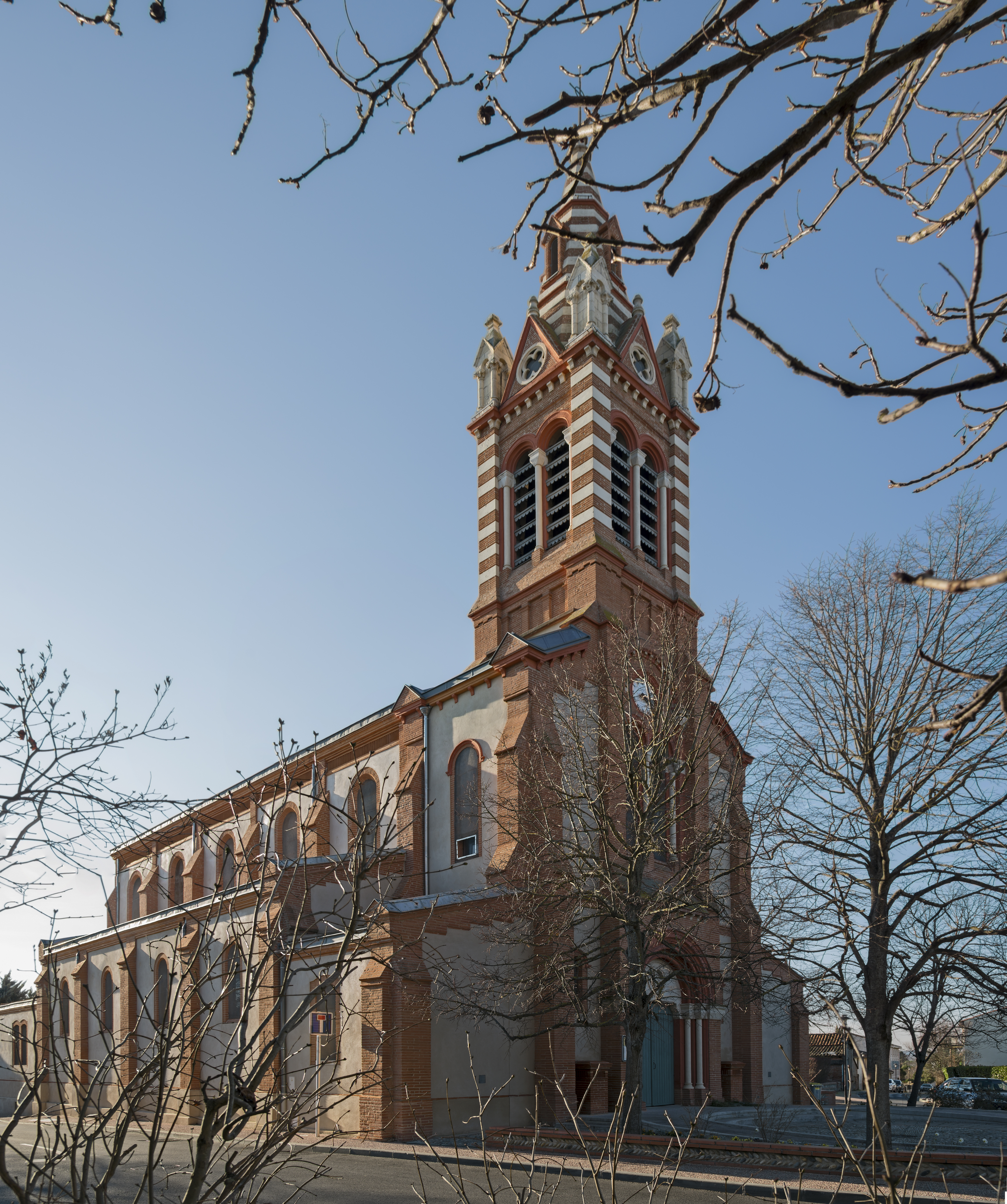 The St Bartholomew church, general view from the outside. Labege Haute-Garonne, France.